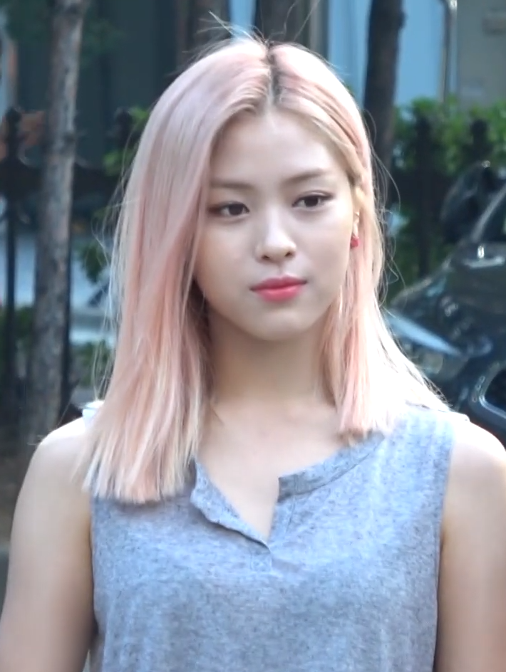 Shin Ryu-jin going to a Music Bank recording on August 8, 2019.